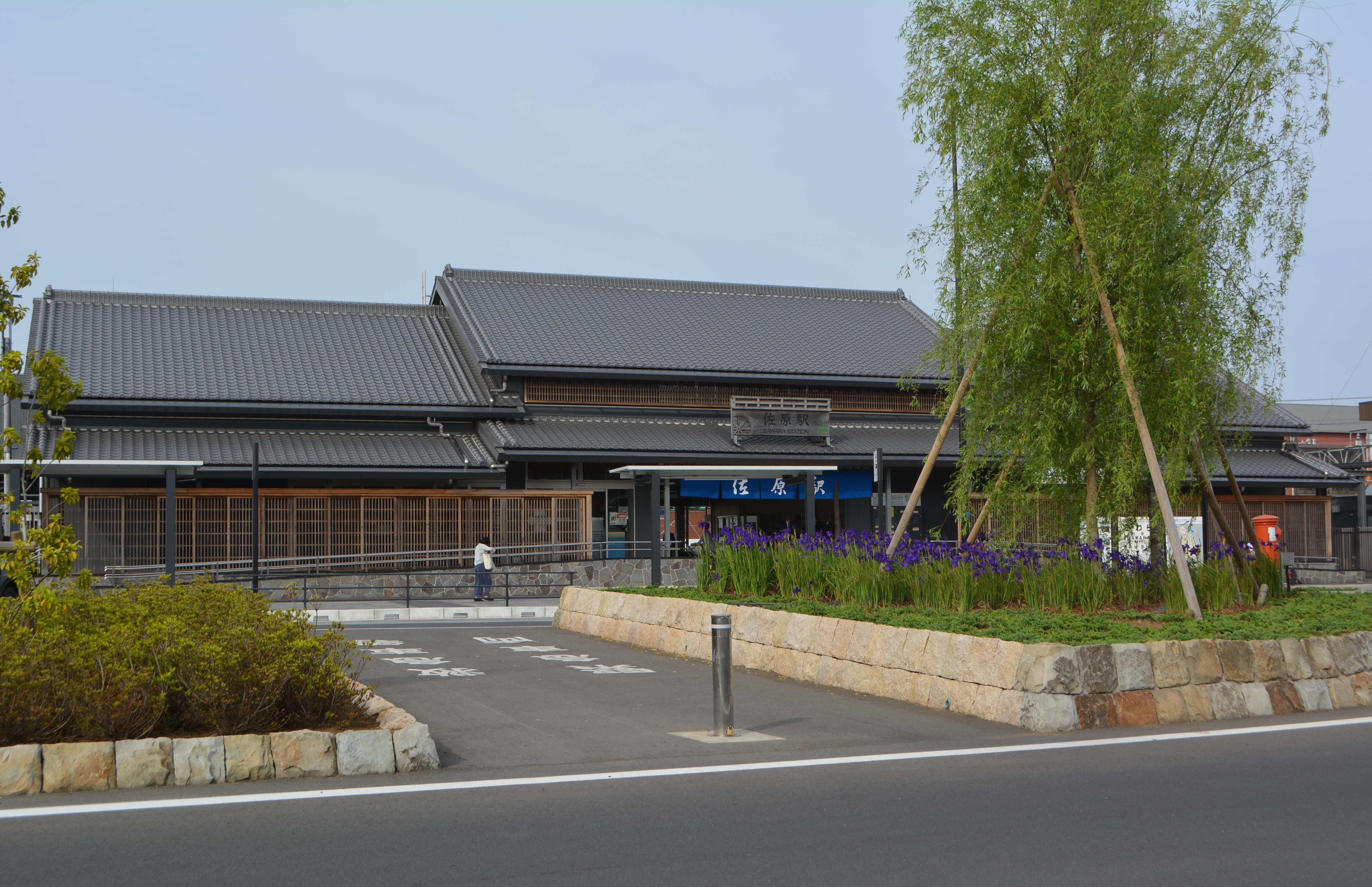 Japanese Iris is blooming early summer of JR Sawara Station. Katori city. Station Square development is completed in 2015. It has been finished with a Japanese-style according to the streets of the Sawara.